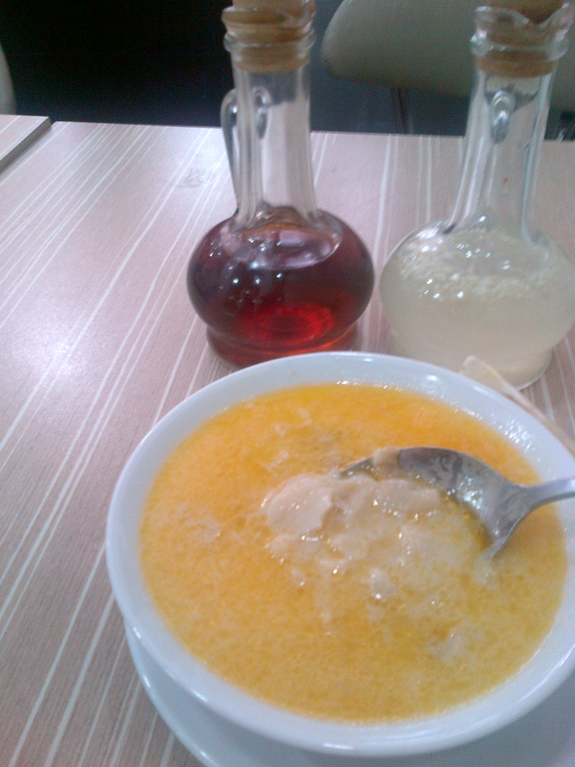 Turkish tripe (işkembe) sop with its sauce allies, vinegar and garlic.